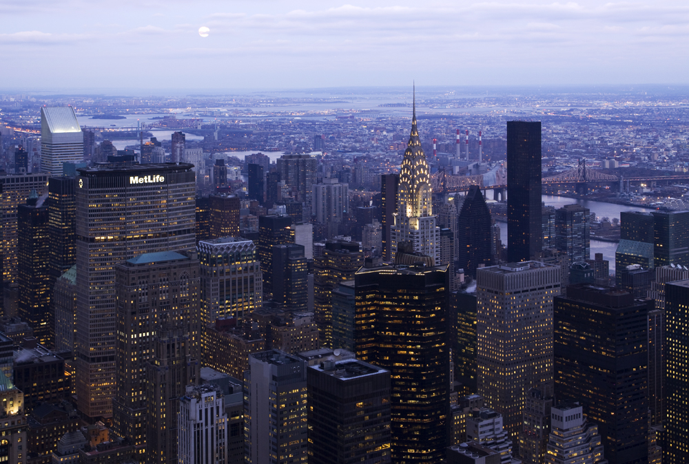 The eastern part of Midtown Manhattan as seen from the Empire State Building.